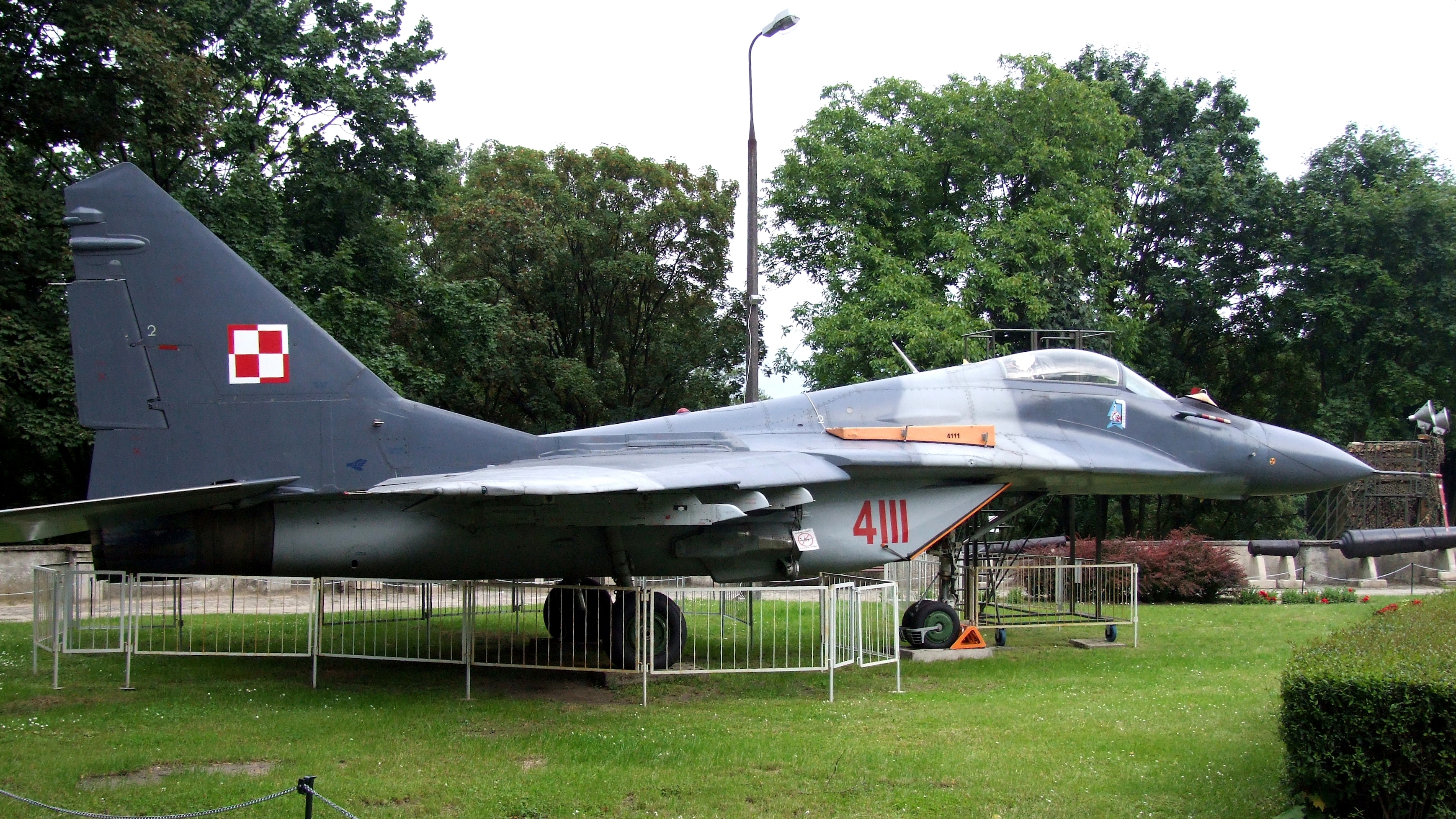 Mig-29 in Polish Army Museum, Warsaw